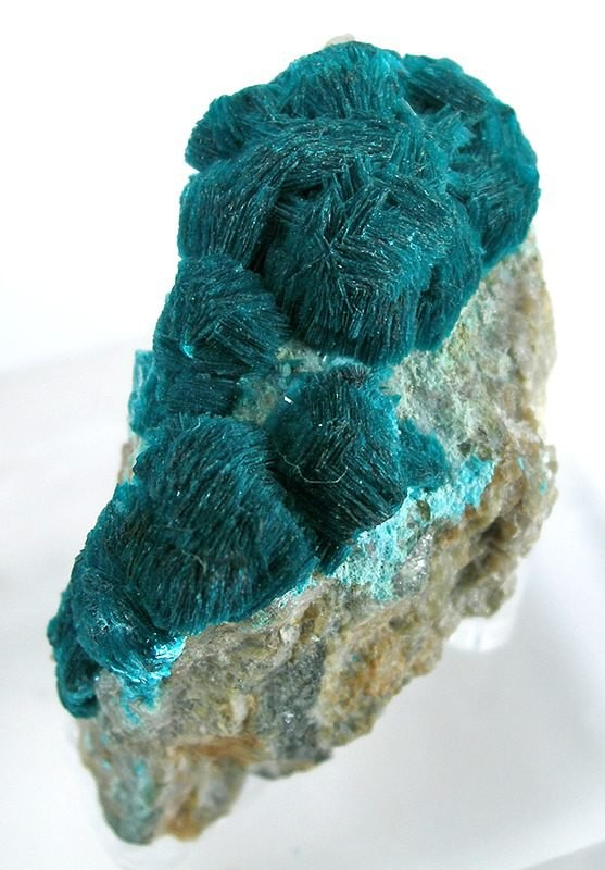 Devilline Locality: Špania Dolina (Urvölgy; Herrengrund), Špania Dolina ore belt, Starohorské Mts, Banská Bystrica Region, Slovakia (Locality at ) Size: 4.7 x 2.4 x 2.2 cm. This is an extremely important specimen of the mineral formerly known as "Herrengrundite," clearly of a very rare and unique habit that dates it to major finds here in the mid-1800s. Specimens are represented in this quality only in museums today (and in a very few specimens in private hands, such as a famous piece ex. Archduke Stephan collection which I had the luck to handle in 2001!). Clusters of robust large crystals such as these, on the contrasting matrix, have been sought after by collectors ever since, and though more devilline has been found in recent years it has not approached this quality. The piece is very beautiful and elegant, making this a competition-level miniature with unusual balance and aesthetics. As well, it is simply significant for the rarity and historic importance of the species.